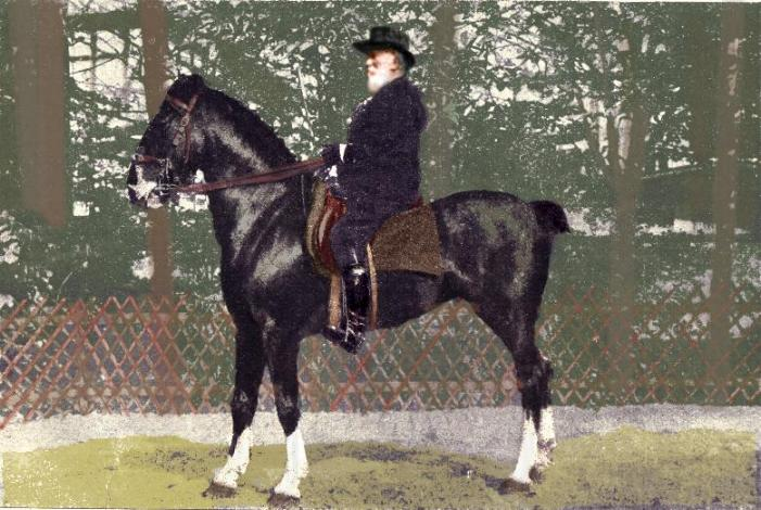 Oberst Peter Spohr, 84 years old